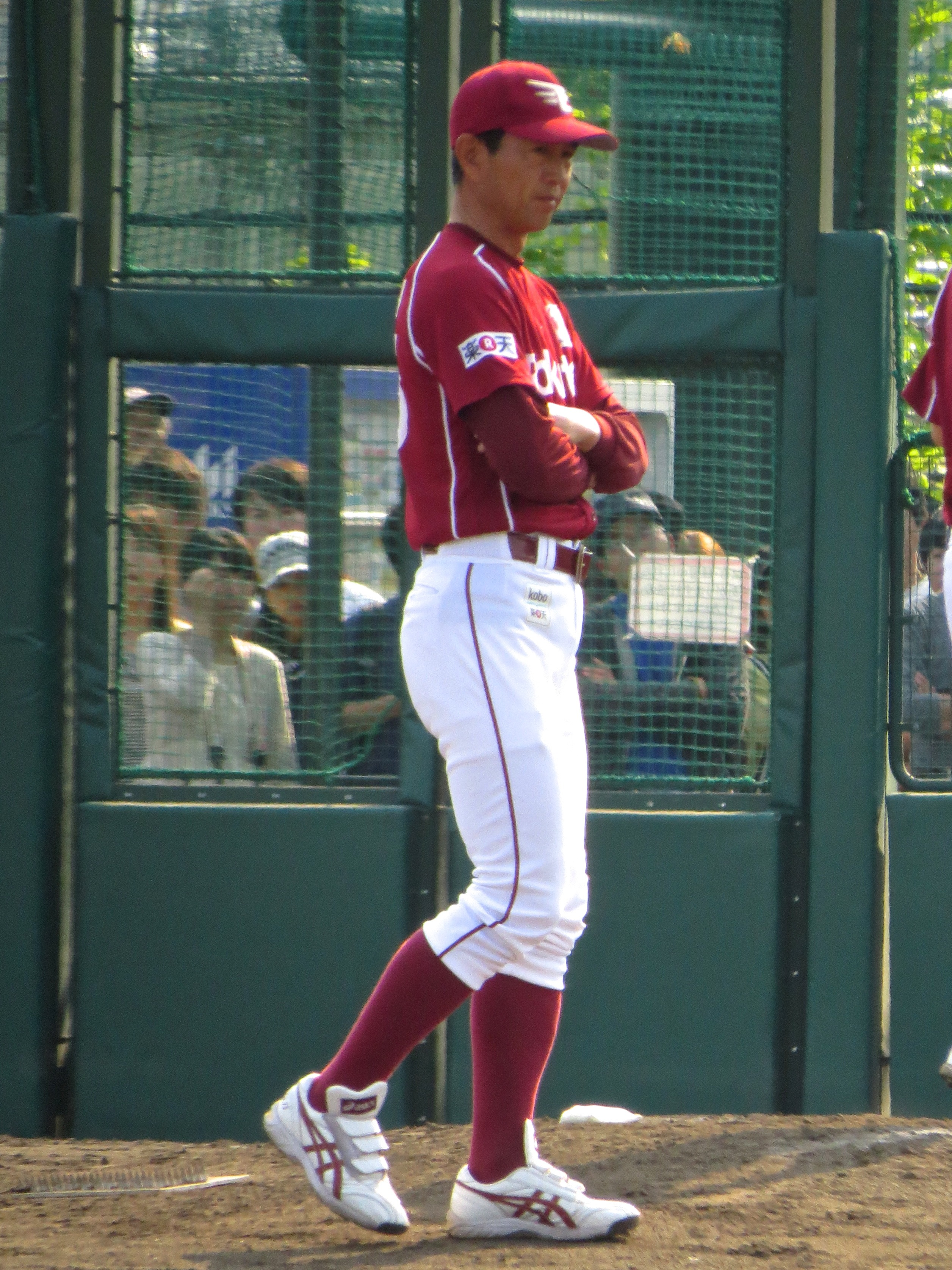 Tsutomu Sakai, coach of the Tohoku Rakuten Golden Eagles, at Lotte Urawa Baseball Ground.